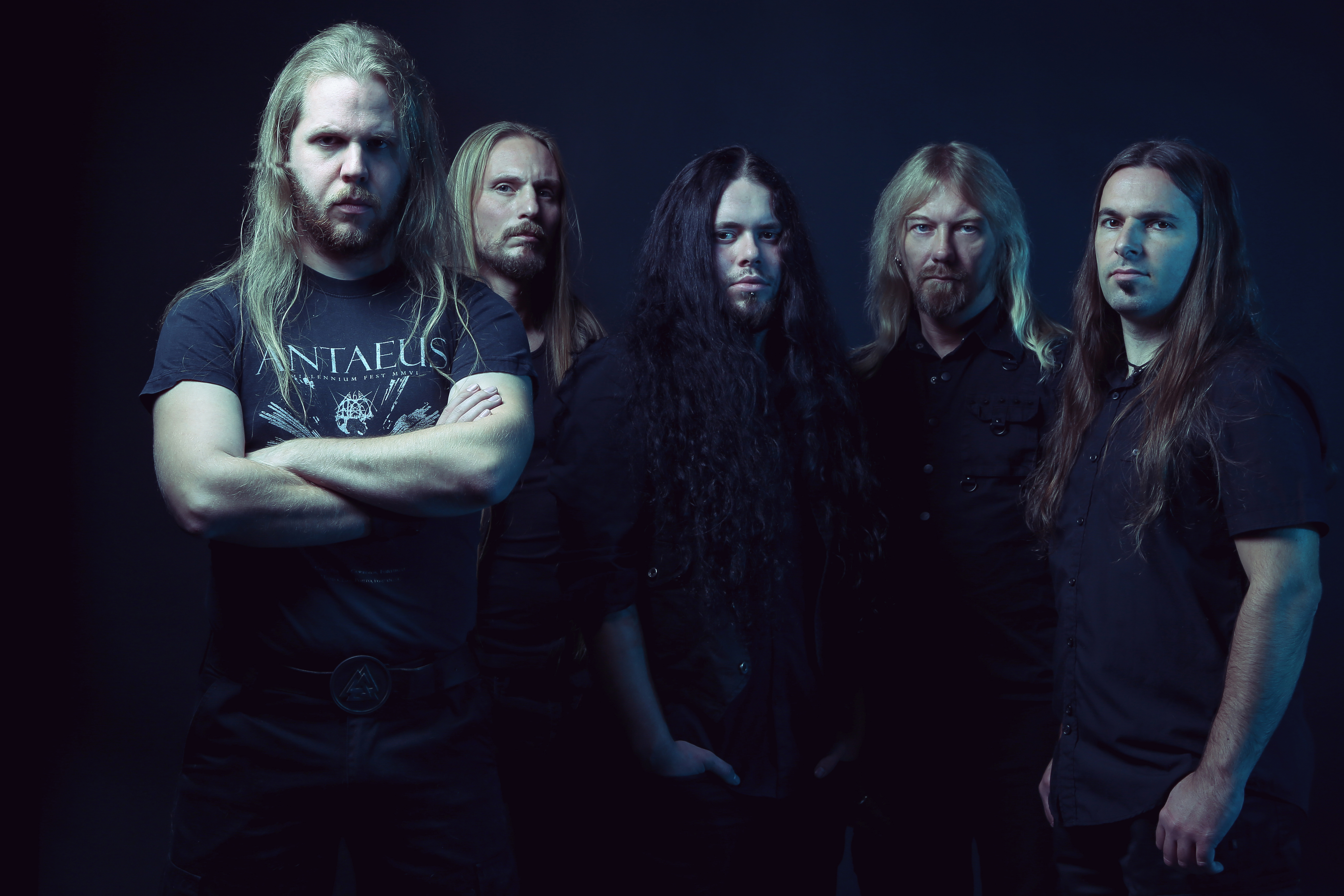 Bandpic Saille 2016